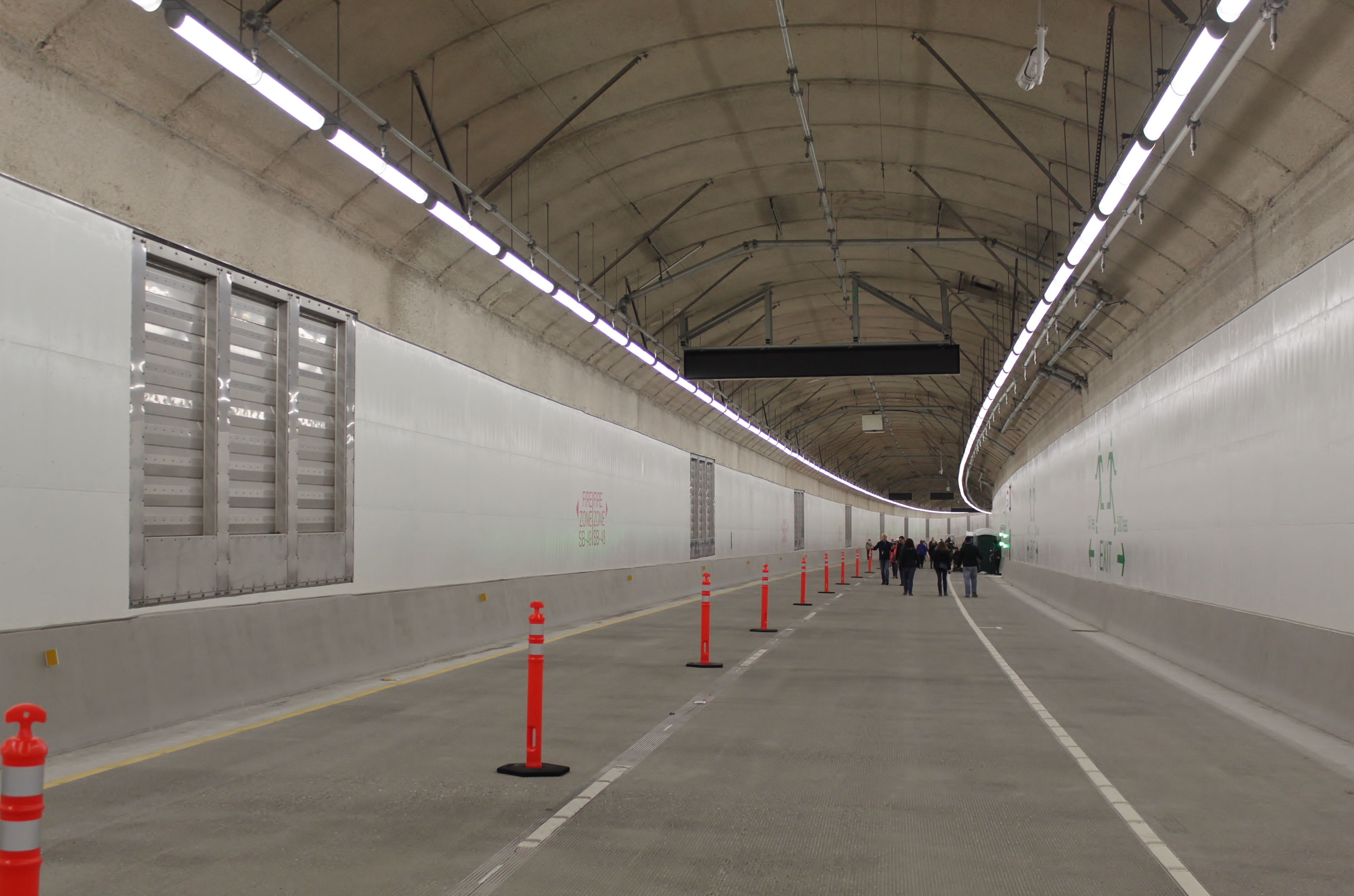 The Alaskan Way Viaduct replacement tunnel's southbound lanes, seen during a community celebration to commemorate its opening.